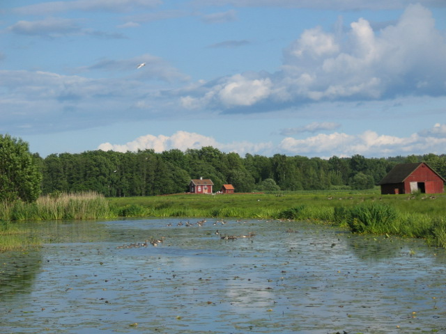 From the nature park "Oset", Örebro, Sweden